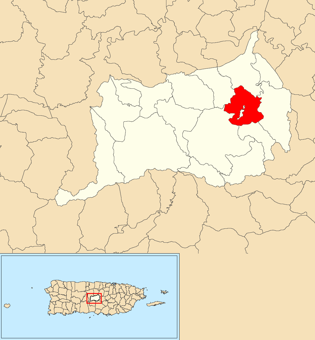 Orocovis, Orocovis, Puerto Rico locator map